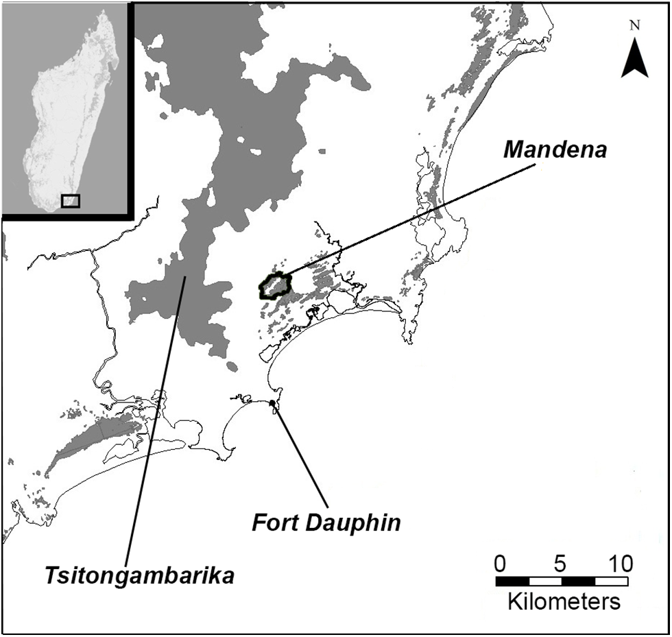 Mandena Conservation Zone in southeast Madagascar, with Mandena Forest, Fort Dauphin (now named Tôlanaro) and the large forest Tsitongambarika marked